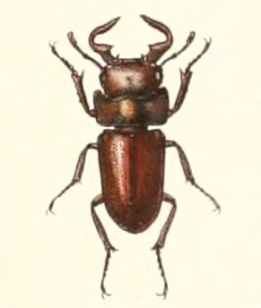 « Dorcus barbarus » = Macrodorcas groulti